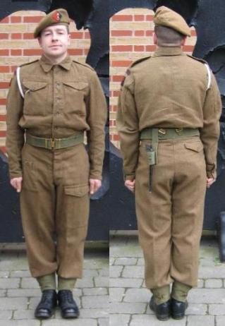 Royal Artillery Gunners Uniform WW2